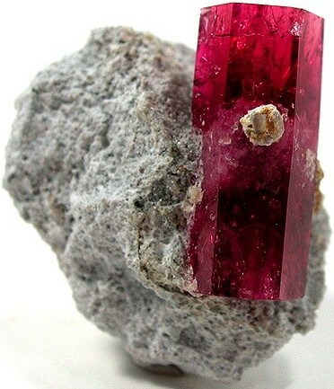 Beryl (Var.: Red Beryl) Locality: Wah Wah Mts, Beaver County, Utah, USA (Locality at ) Size: 1.9 x 1.8 x 1.7 cm. This area of Utah produced the finest, largest red beryl crystals in the world. This particular crystal features a 1.5 cm, doubly-terminated, gemmy and lustrous crystal perched on white rhyolite matrix. It has glassy lustre and excellent internal brightness that is rare in the species. Ex. Irv Brown Collection.